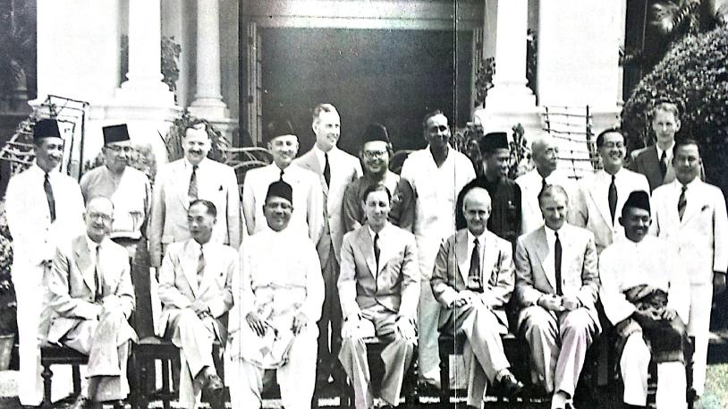 Members of the Cabinet of the Federation of Malaya, 1955: Sitting from the left: C.J. Thomas (Secretary of Finance), H. S. Lee (Minister of Transport), Tunku Abdul Rahman (Chief Minister and Minister of Home Affairs), Donald MacGillivray (High Commissioner), D.J. Watherson (Chief Secretary), J.P. Hogan (Attorney General), and Dr. Ismail Abdul Rahman (Minister of Natural Resources). Standing from the left: Bahaman Samsuddin (Deputy Minister of Home Affairs), Abdul Razak Hussein (Minister of Education), O.J. Spencer (Secretary of Economy), Abdul Aziz Ishak (Minister of Agriculture), A.H.P. Humphrey (Secretary of Defence), Sulaiman Abdul Rahman (Minister of Local Government, Housing and Town Planning), V. T. Sambanthan (Minister of Labour), Sardon Jubir (Minister of Works), Leong Yew Koh (Minister of Health), Ong Yoke Lin (Minister of Communications, Telecommunications and Posts), A.S.H. Kemp (Secretary of State), and Too Joon Hing (Deputy Minister of Education).